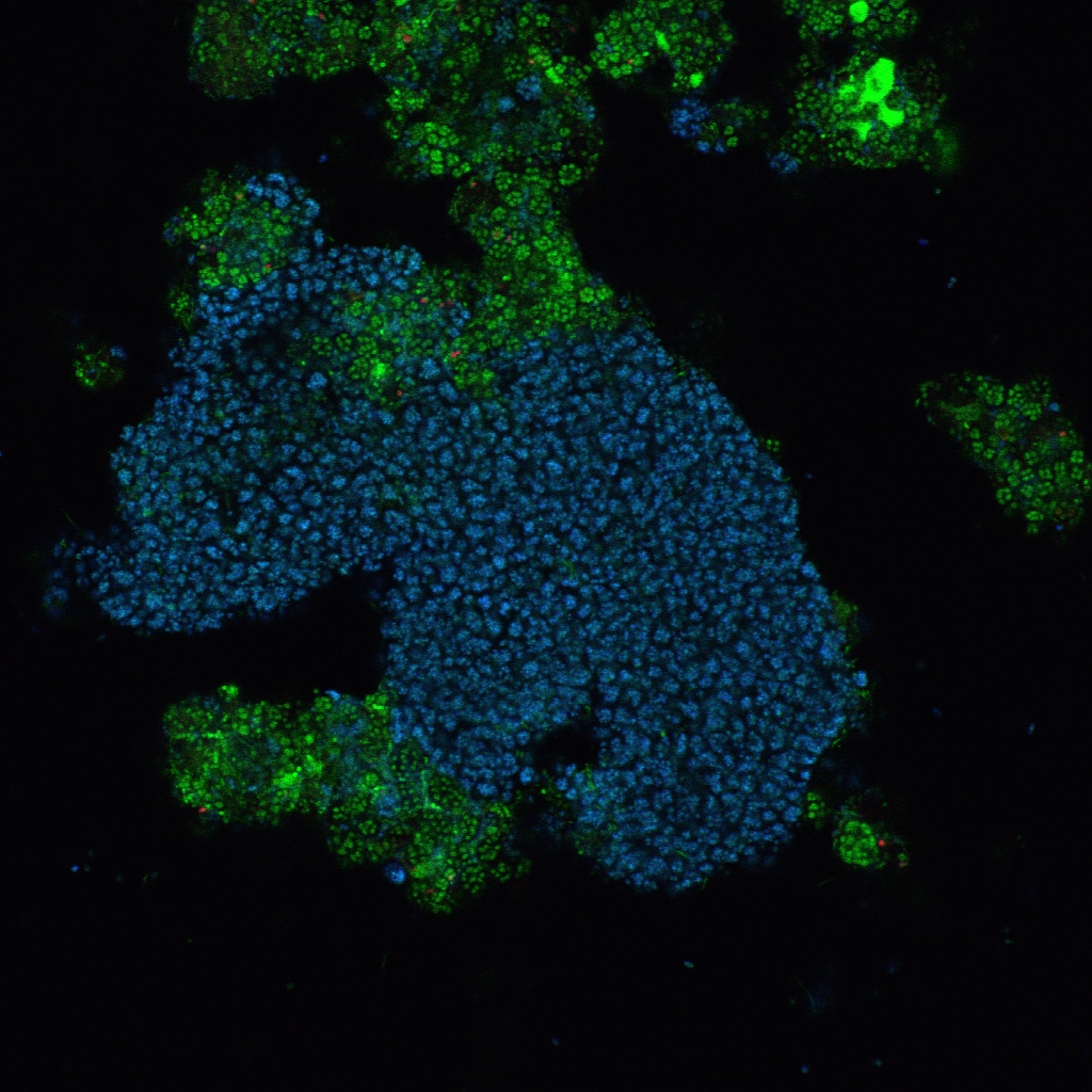 A FISH image of a floc from a lab-scale EBPR reactor and 400X magnification. The image was captured using a Zeiss LSM 510 confocal microscope with two channels: FITC and Cy5. The EUBmix probe (FITC) was used to stain all bacteria, which appear in green. The PAOmix probe (Cy5) was used to stain Candidatus Accumulibacter Phosphatis, which appear in blue.